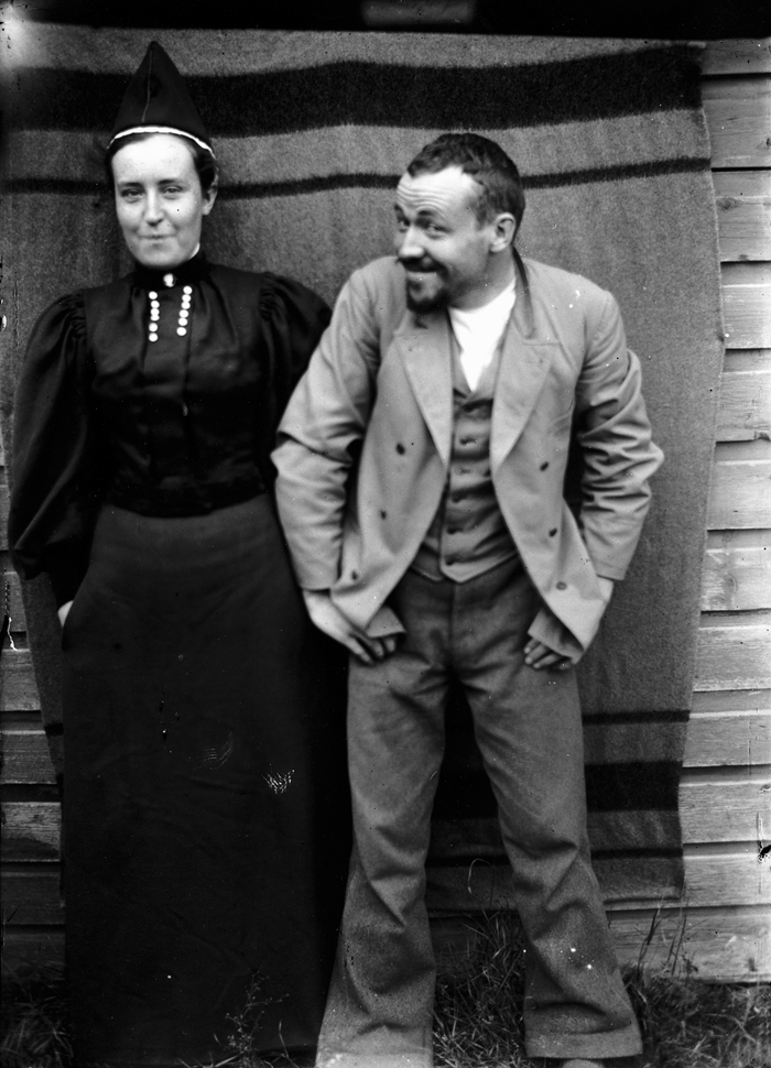 Hugo Simberg with his sister Blenda, photo taken by the artist with the aid of delayed-action release. 1896, Finnish National Gallery, Helsinki